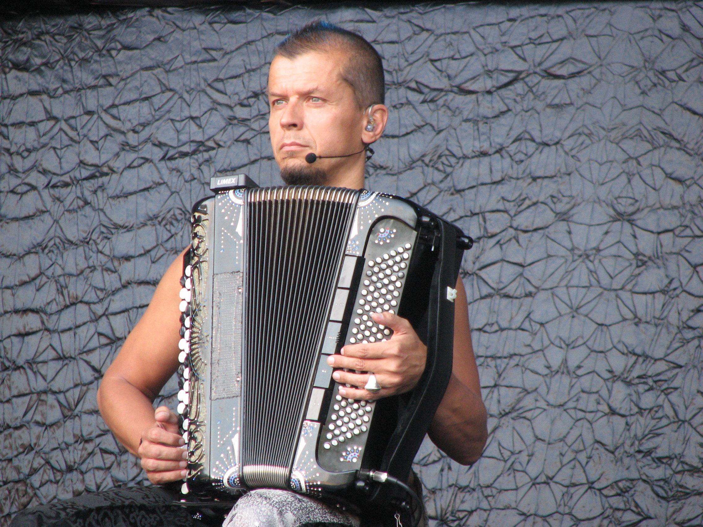 Kimmo Pohjonen performing on the stage of The Song of Freedom